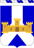 Coat of arms of the 393d Regiment